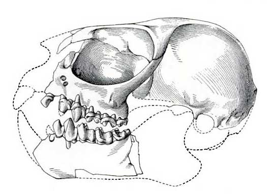 Redrawn figure of Tetonius homunculus from Matthew and Granger (1915)